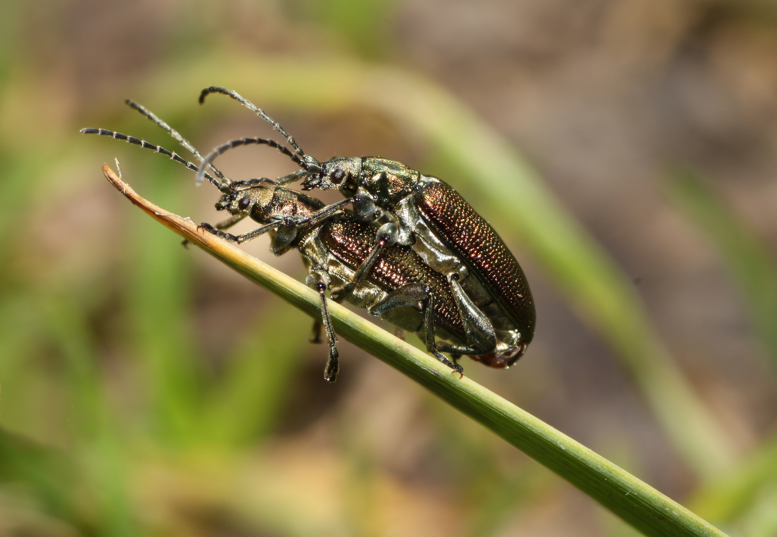 Donacia sp. (couple), Family: Chrysomelidae, Location: Germany, Torfgrube